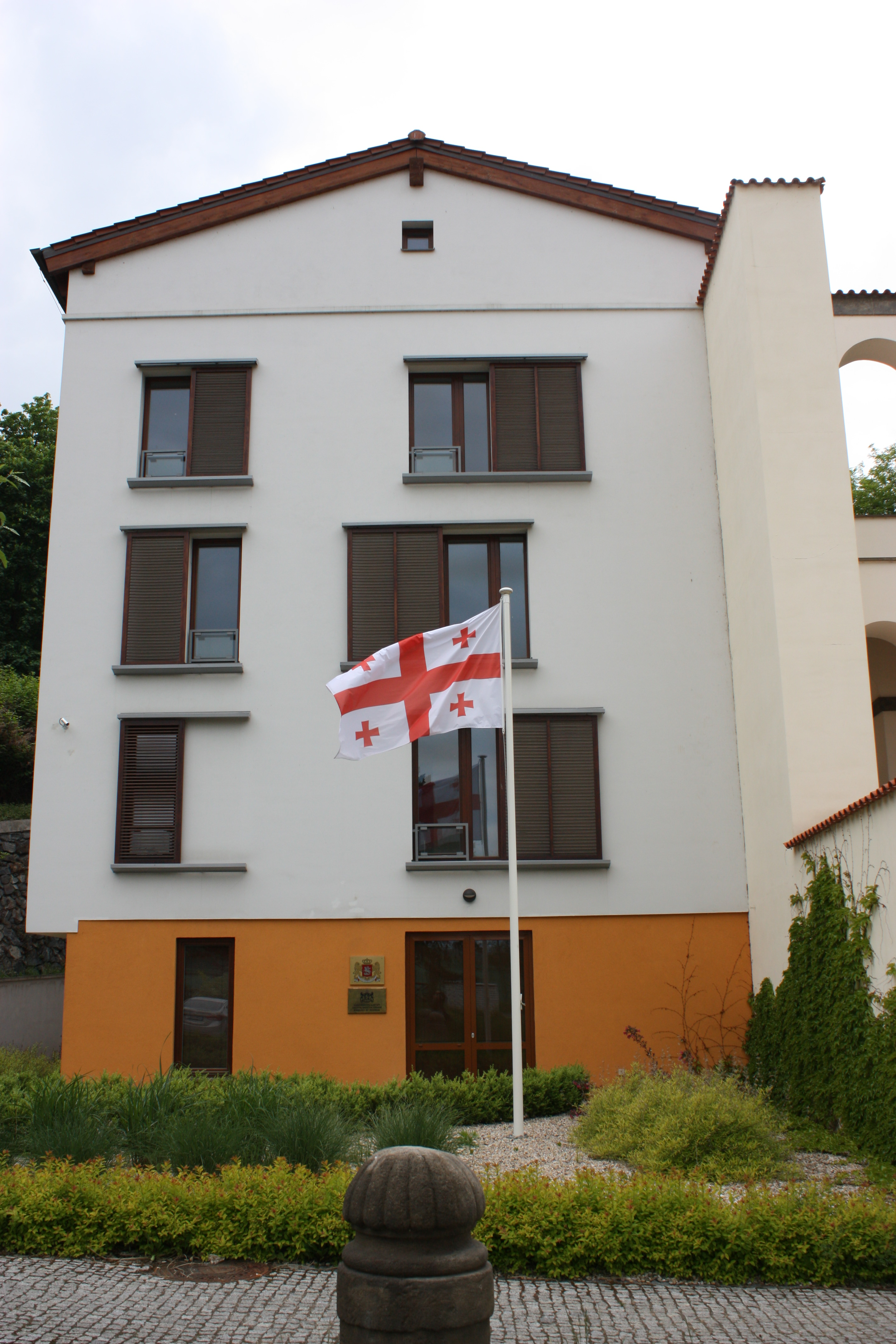 Embassy of Georgia, Mlýnská 22/4, Prague 6 - Bubeneč